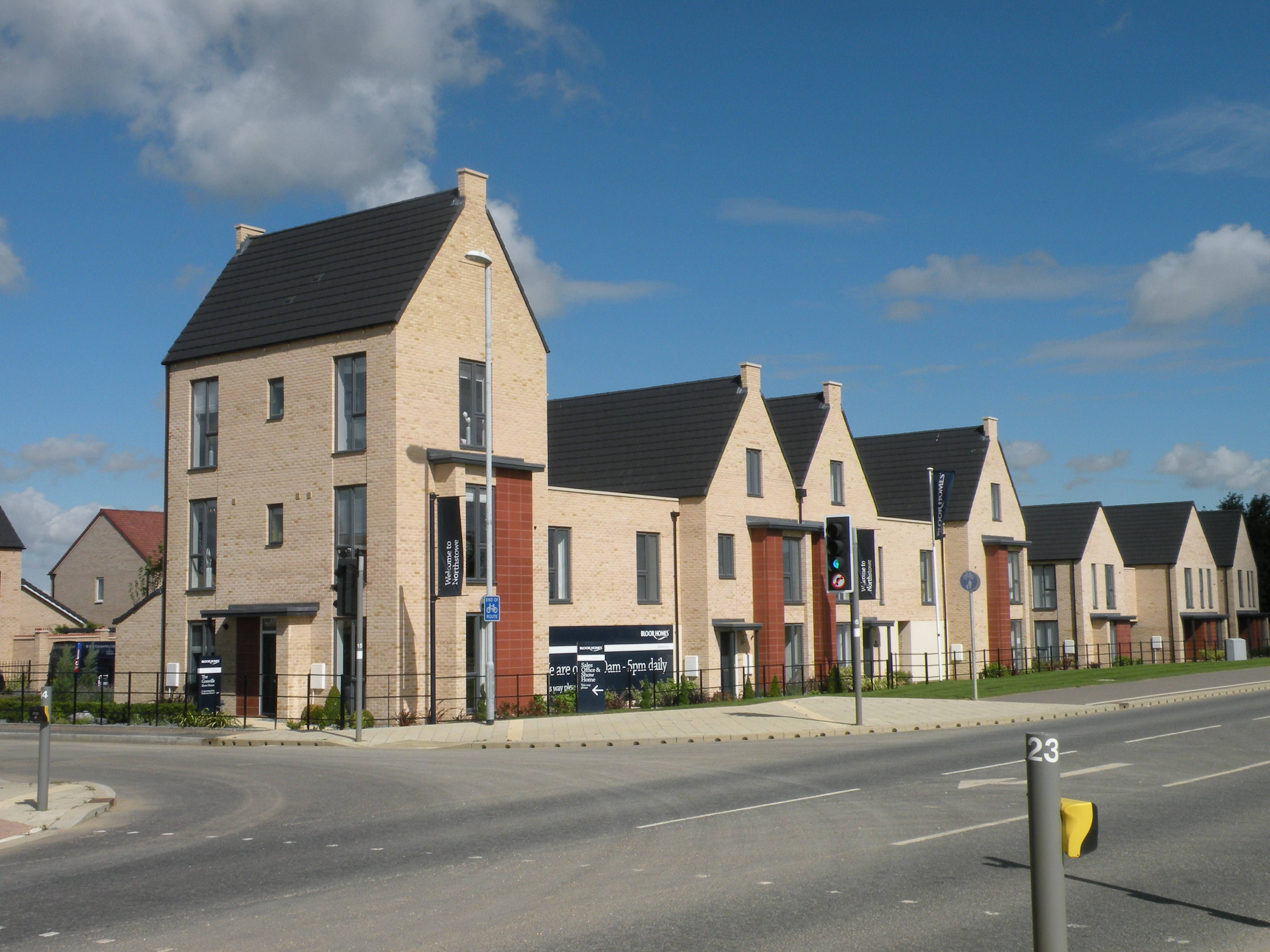 The first houses at Northstowe, Cambridgeshire, built by Bloor Homes, nearing completion.